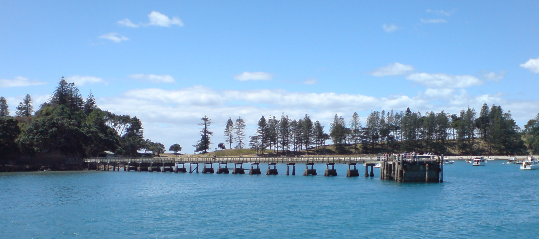 A look over the wharf while approaching on the local ferry to Motuihe Island, Hauraki Gulf, New Zealand.